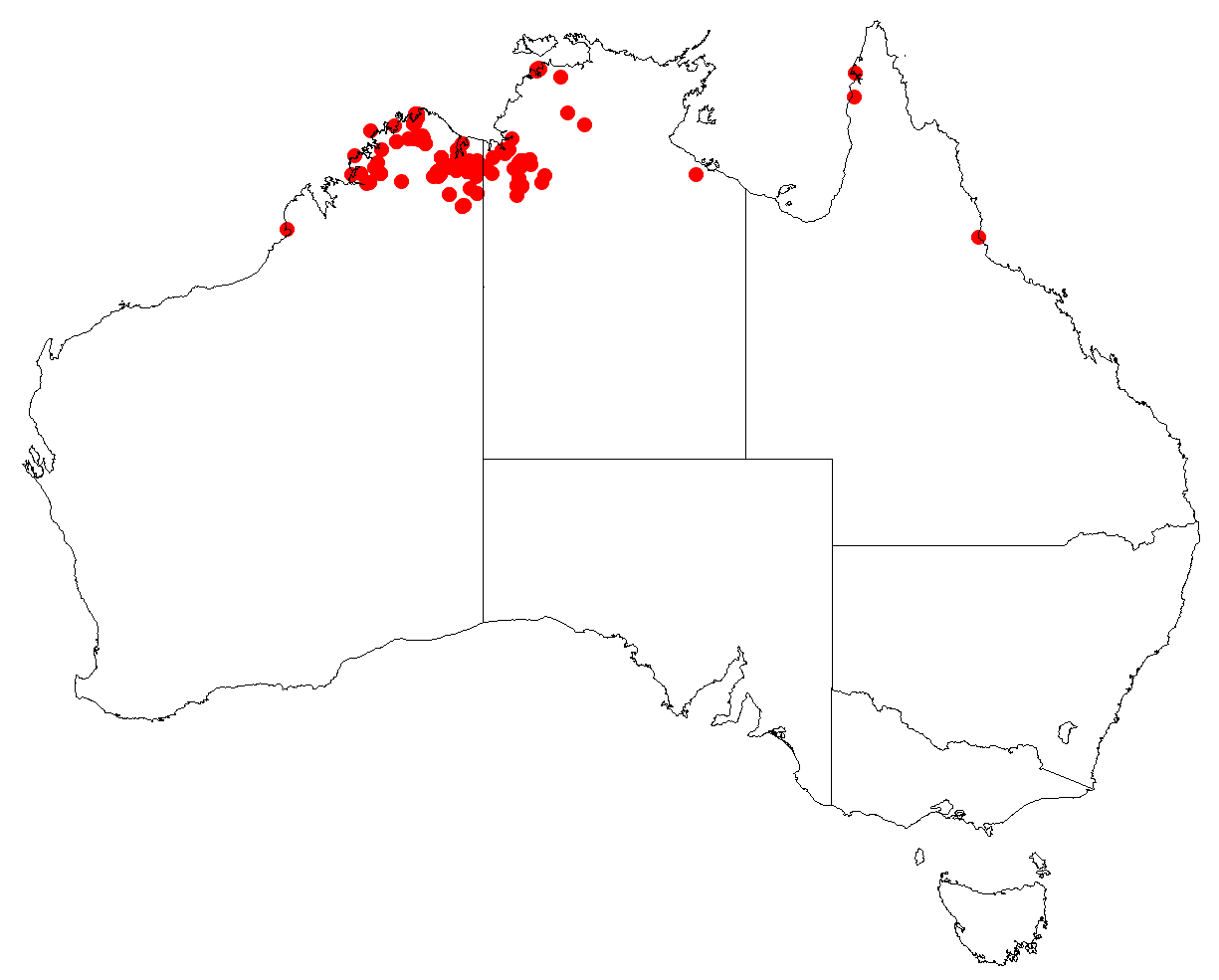 Acacia dunnii Occurrence data downloaded from Australasian Virtual Herbarium, May 29, 2018